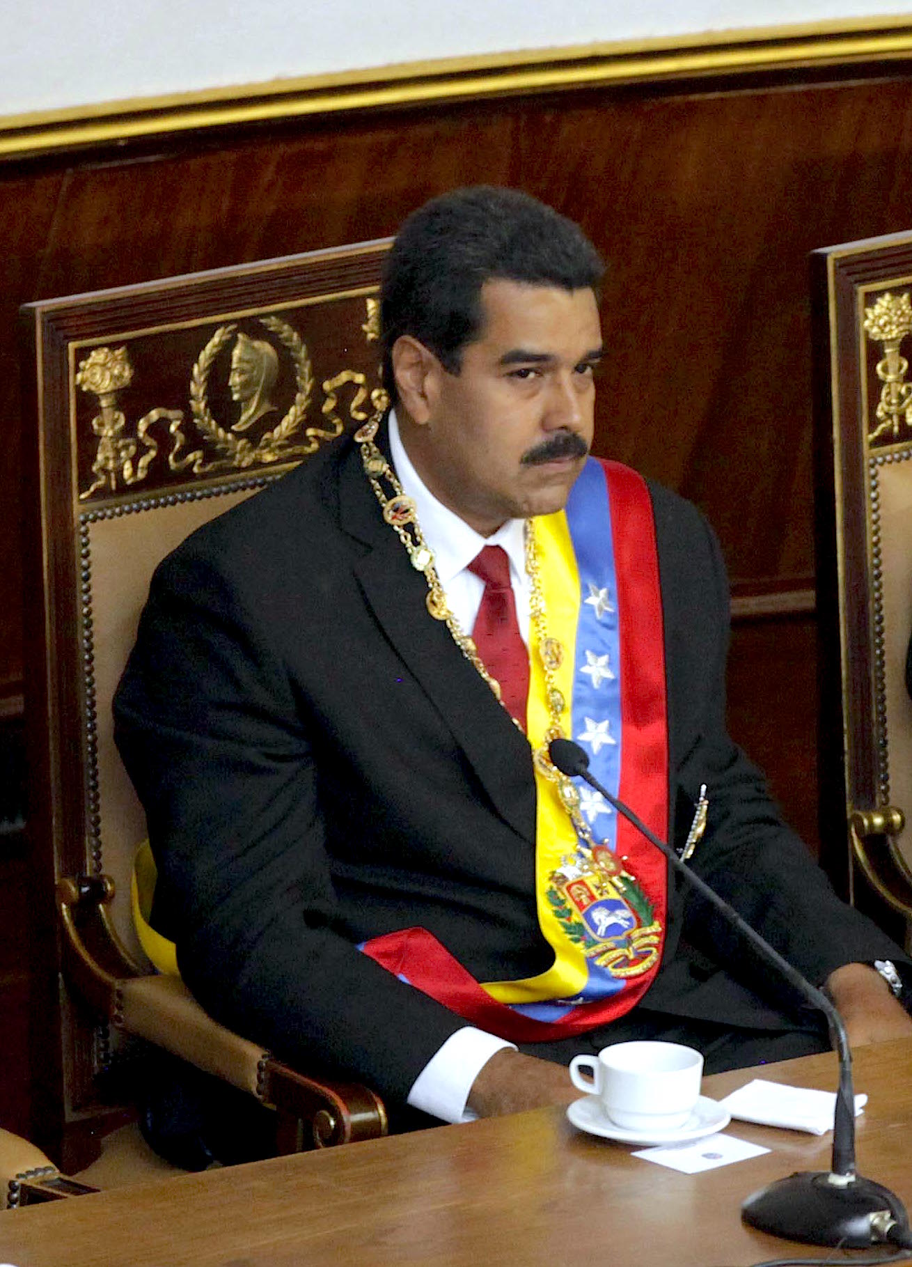 Nicolás Maduro assuming office as President of the Bolivarian Republic of Venezuela.